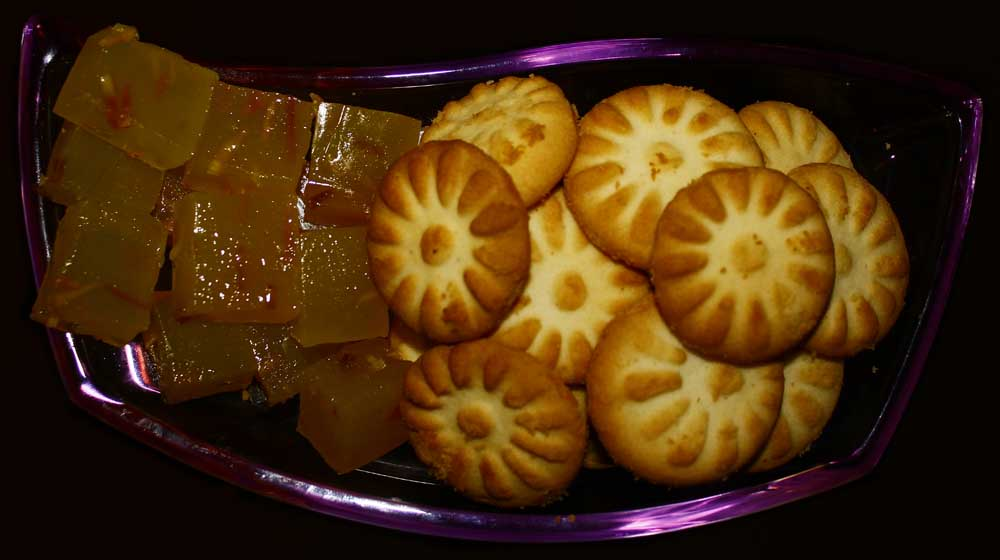 Koloocheh and Masghati,An Iranian cookie